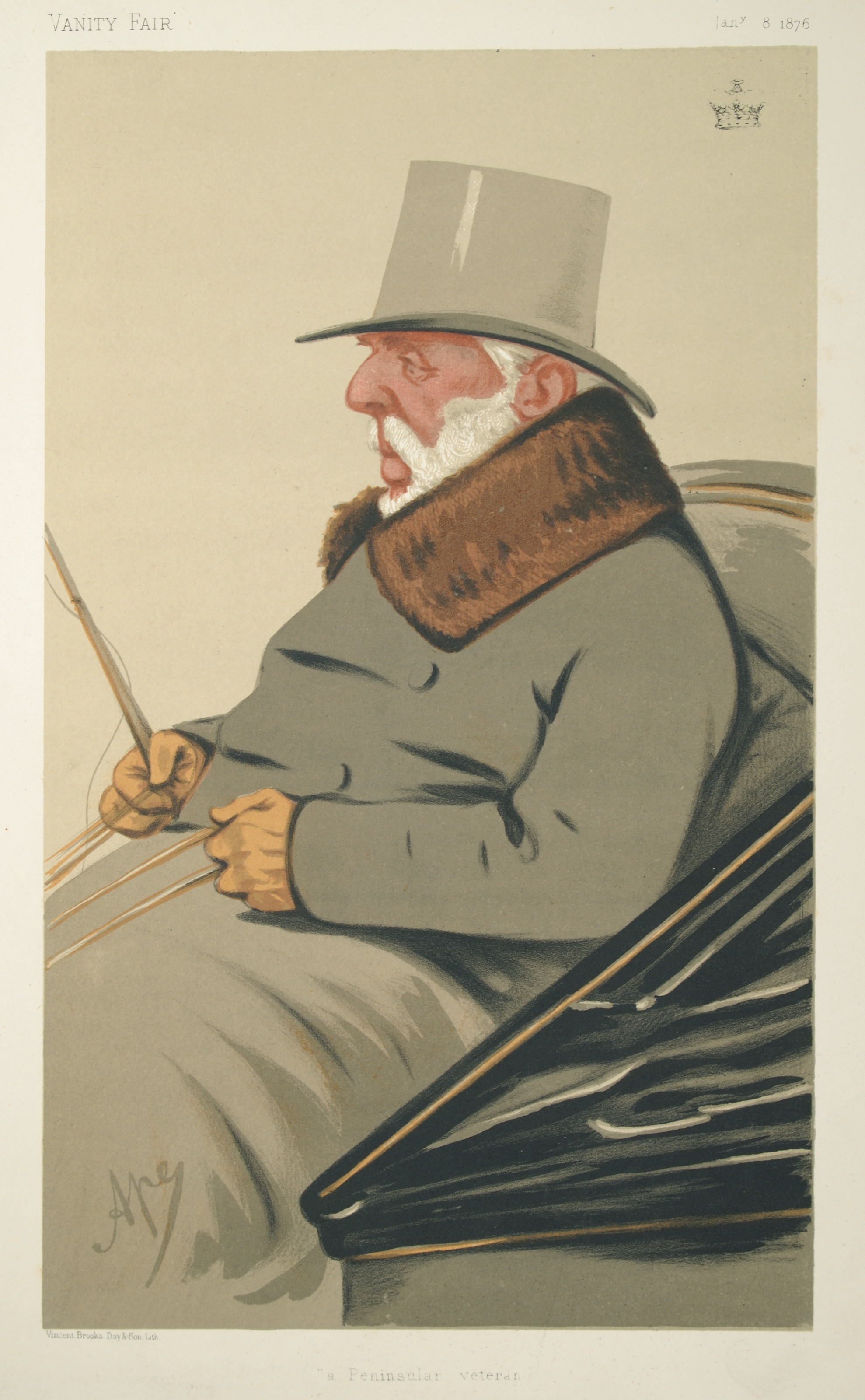 Statesmen No.217: Caricature of The Marquis of Tweeddale KT GCB. Caption reads: "Peninsular Veteran"